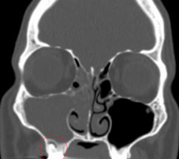 Computerized tomography (CT) in a coronal plane of a patient with odontogenic sinusitis demonstrating complete opacification of the right maxillary and right anterior ethmoid sinuses with associated involvement of the ostiomeatal unit. There is a periapical radiolucency of the right maxillary first molar (red circle).